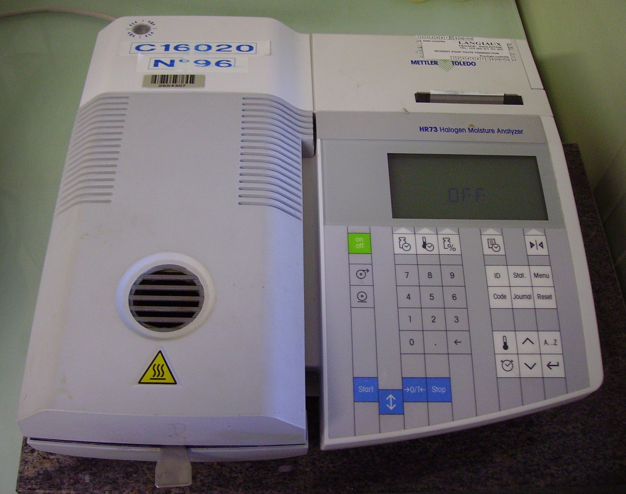 Halogen moisture analyzer.